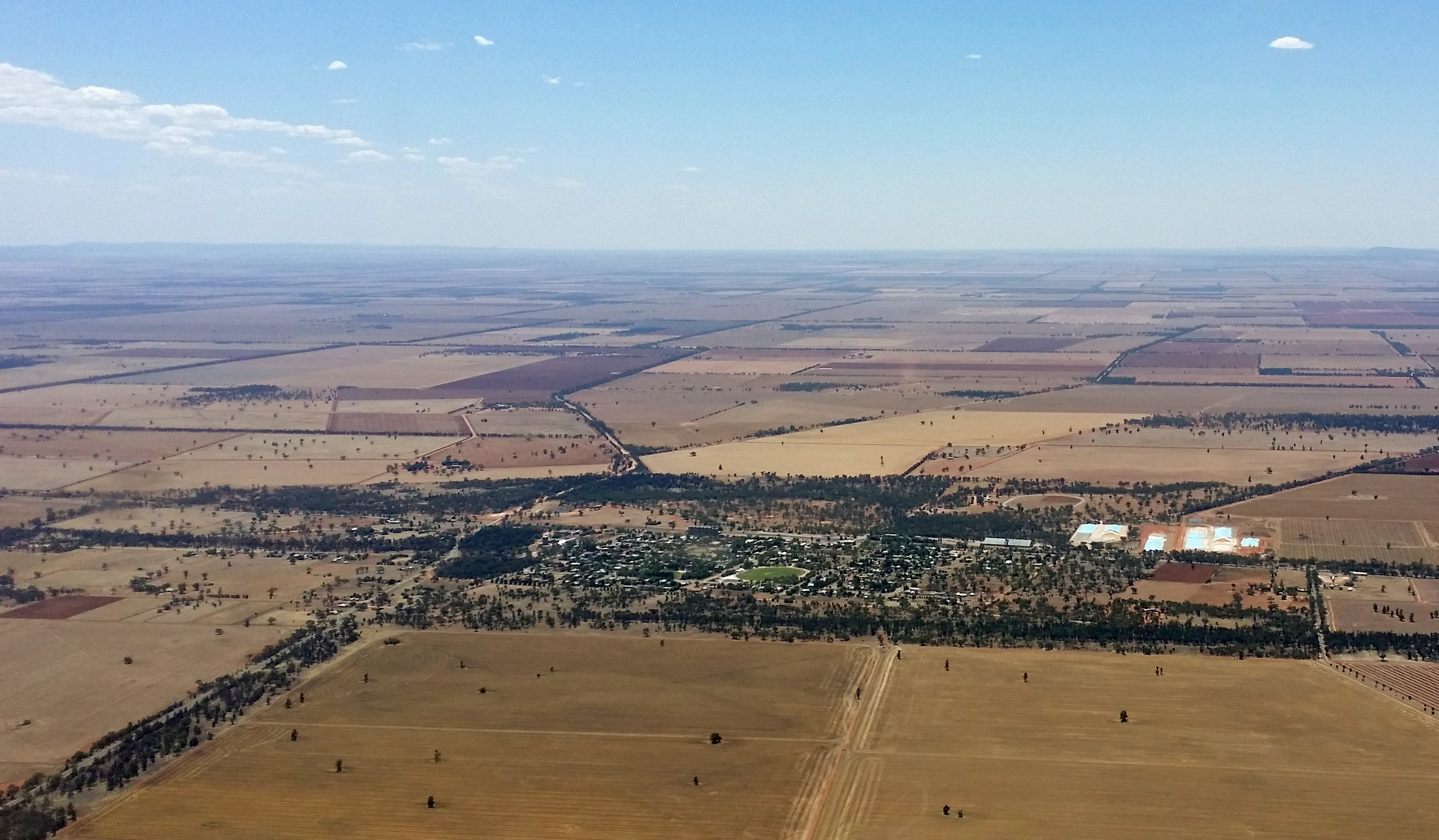 Air-to-ground view of Barellan, looking north on a clear day.